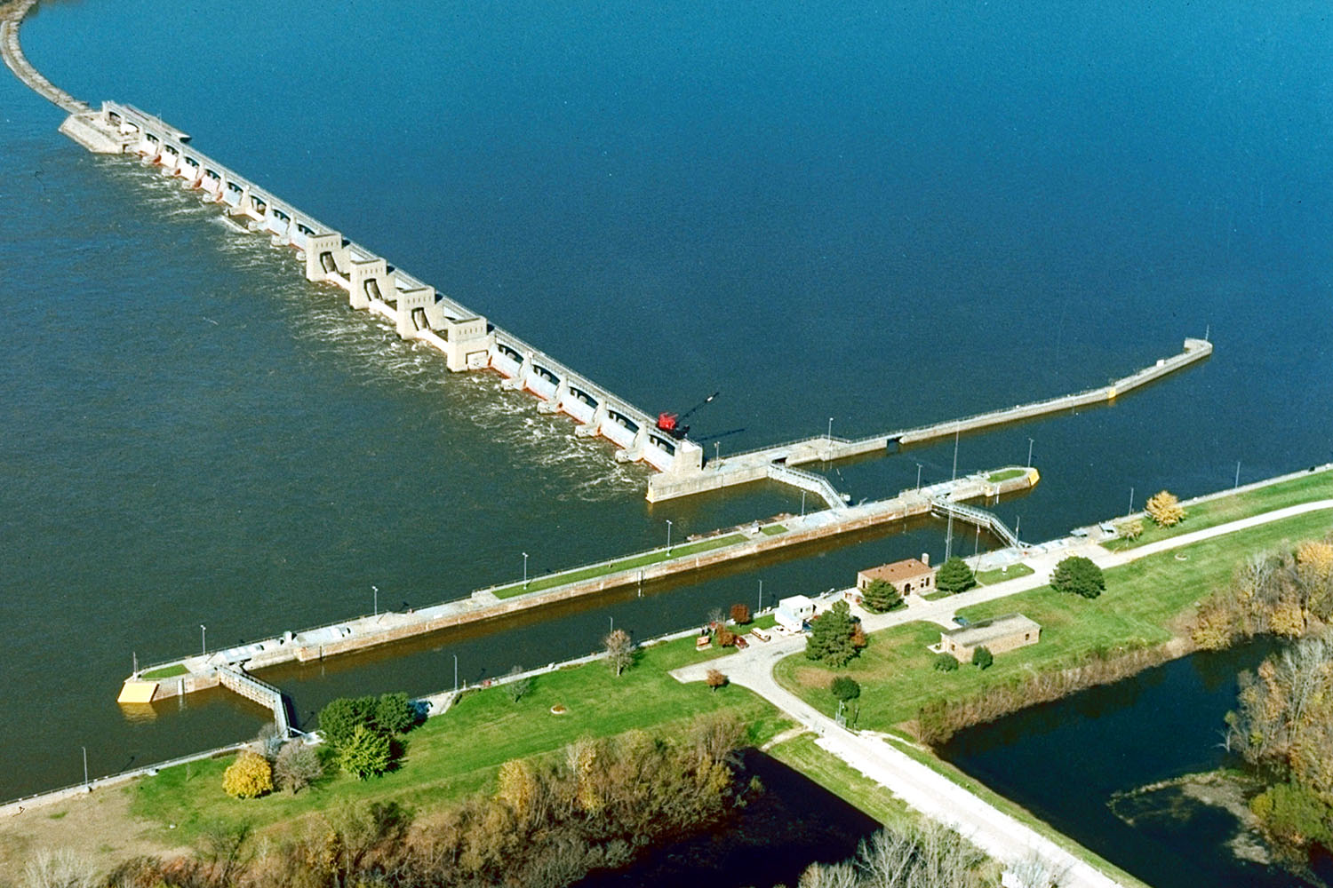 Aerial view of Lock and Dam 18, Mississippi River, New Boston, Illinois.